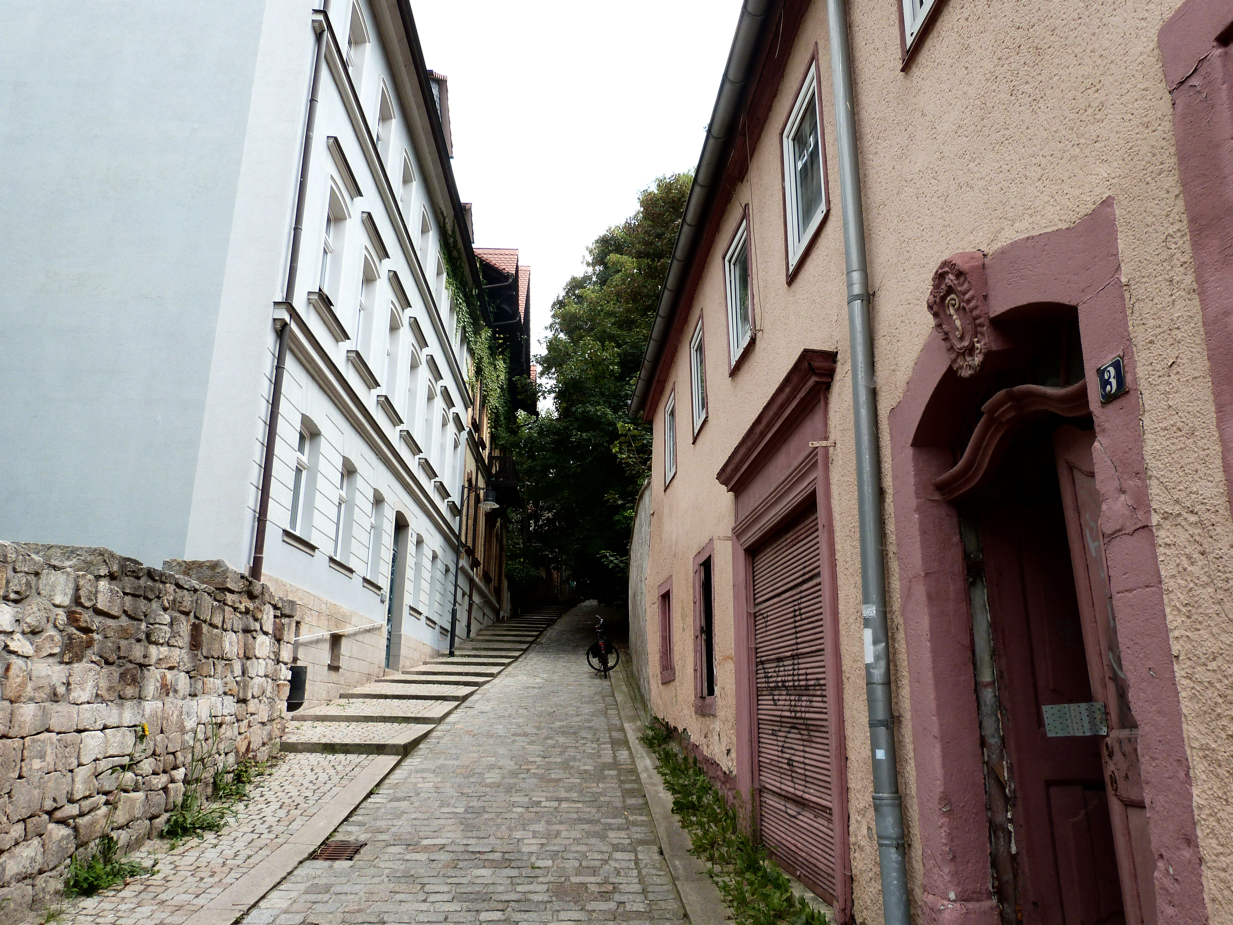 Lane Schlossgasse in Weissenfels, Saxony-Anhalt